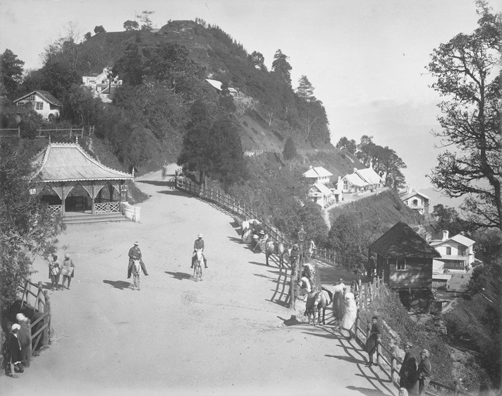 Darjeeling street, 1880. (Photographic Print) The majority of the prints in this collection entitled 'Album of views of India and Ceylon' are unsigned, however the Darjeeling views may be the work of Johnston & Hoffmann as the company maintained a studio there. ( British Library)